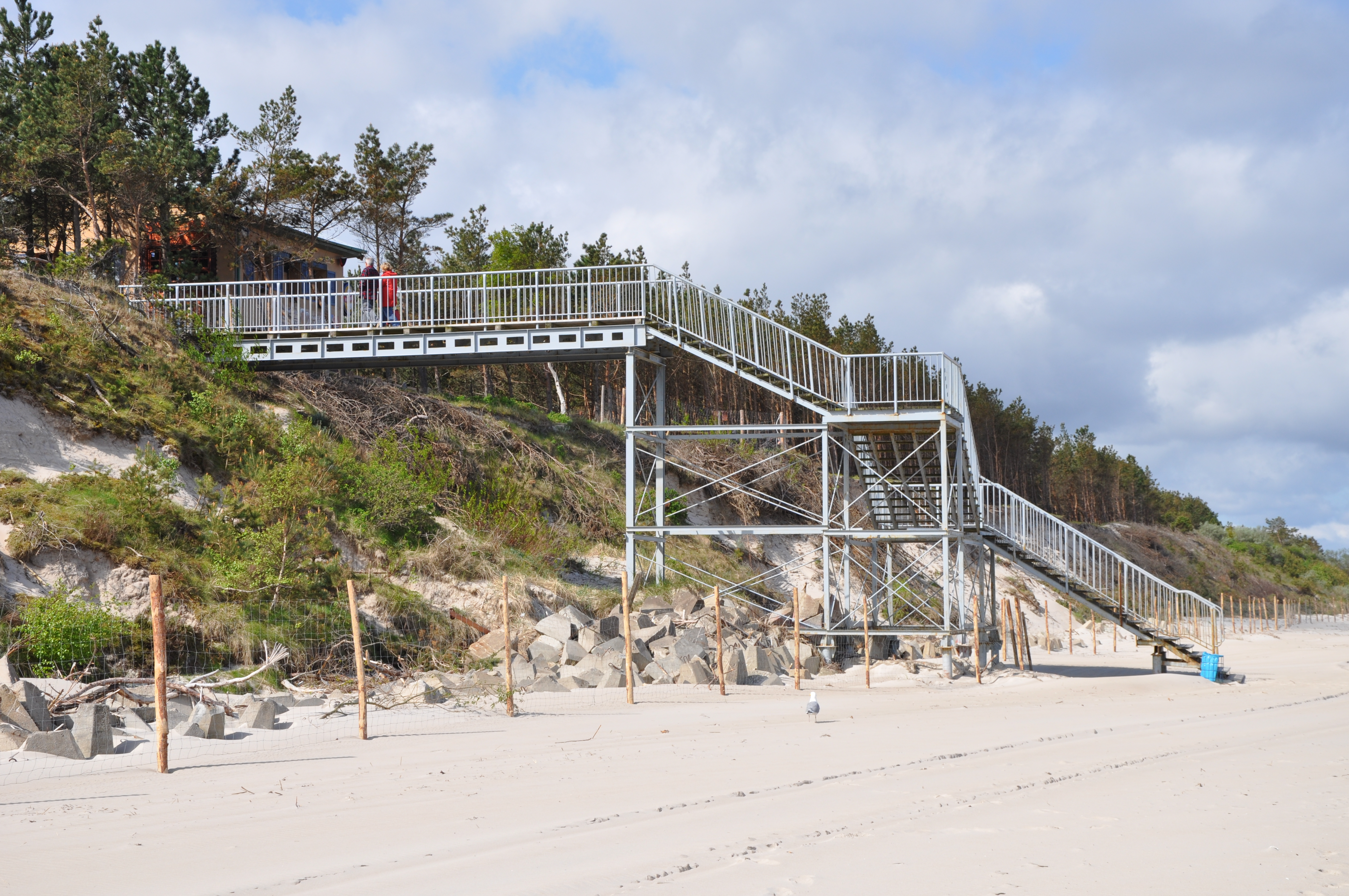 Beach stairs in Mrzeżyno, Poland